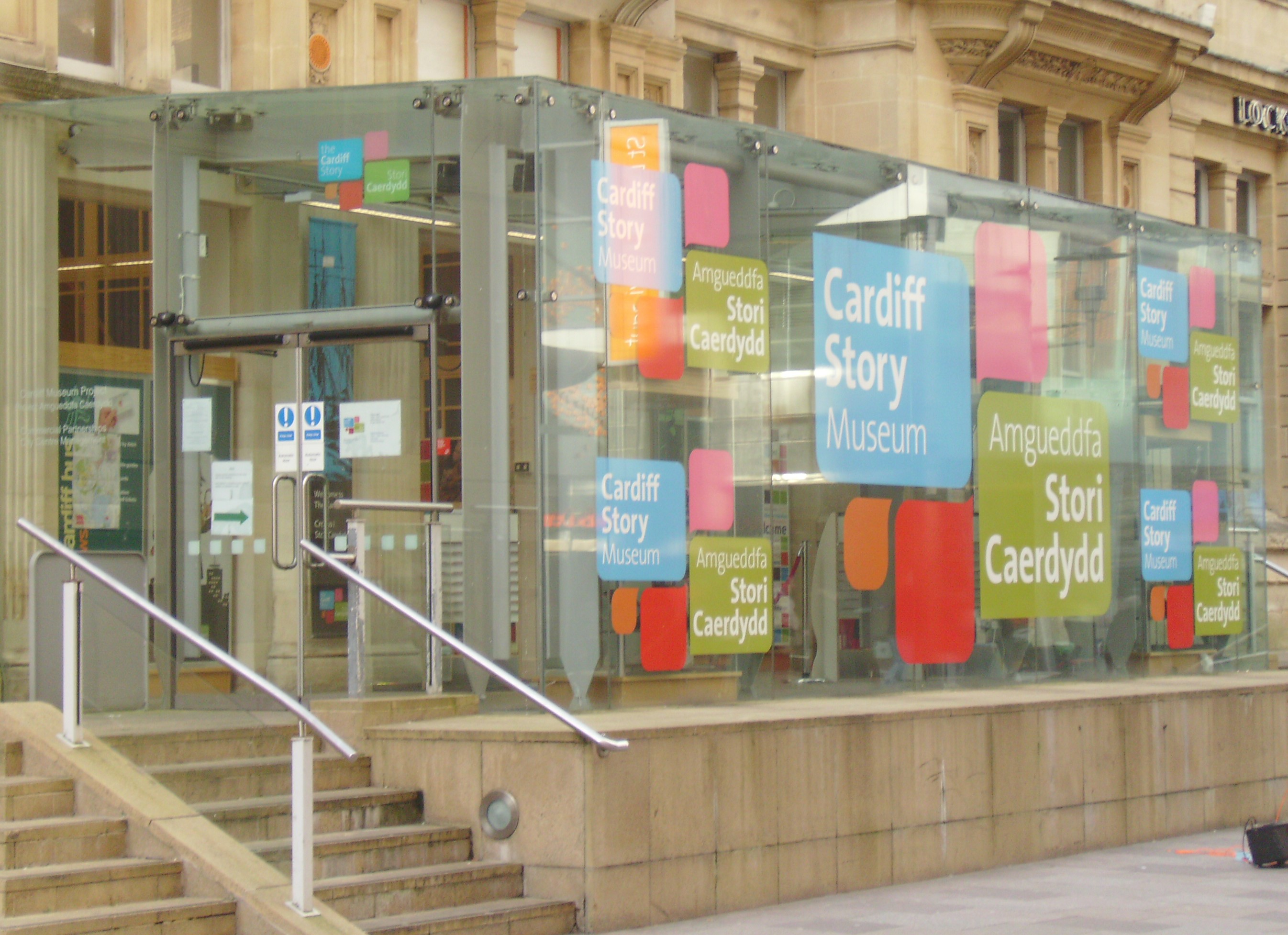 Entrance to the Cardiff Story (Old Library) Cardiff, Wales.